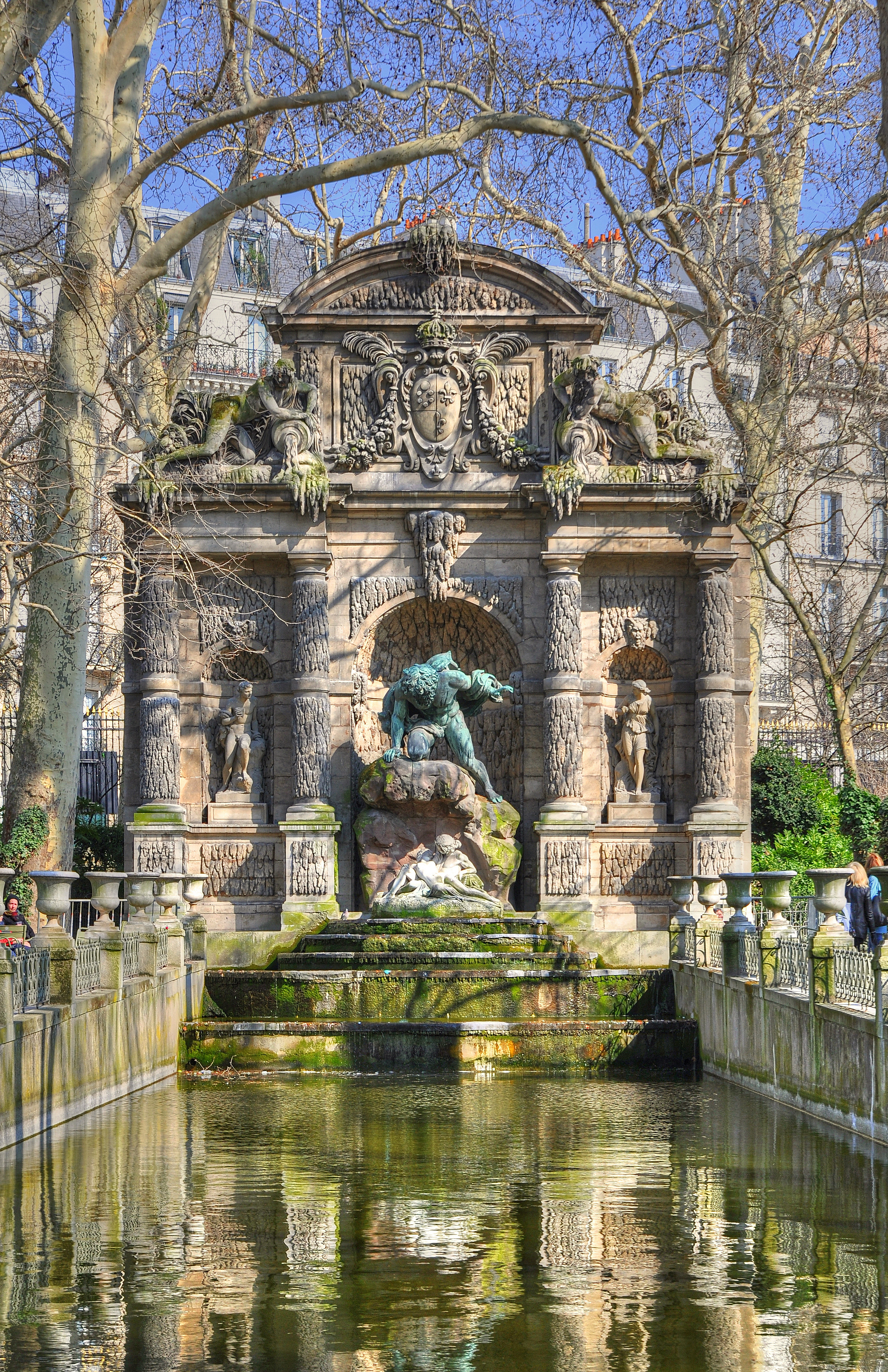 Medicis Foutain in the Jardin du Luxembourg, 6th arrondissement of Paris in France.